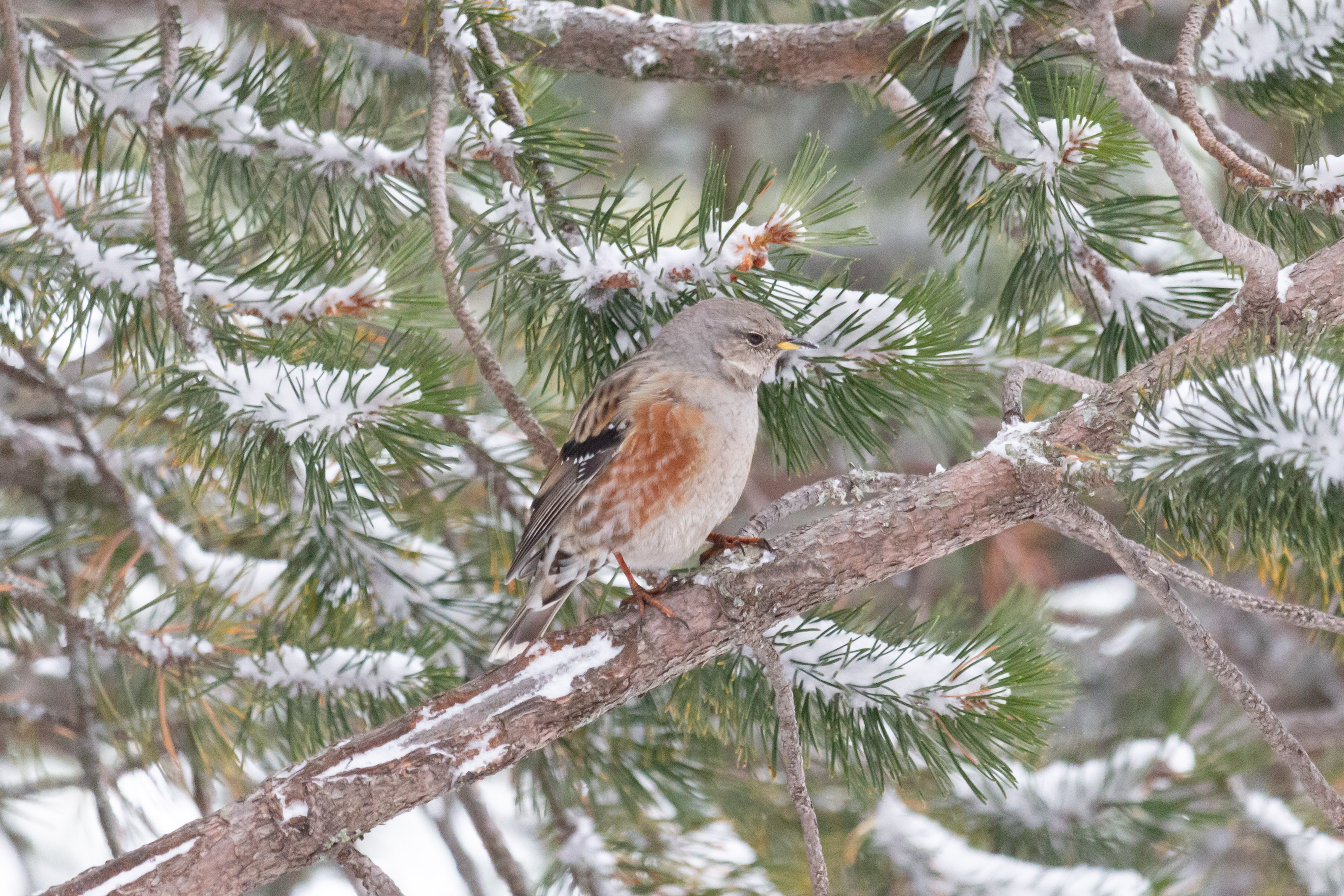 Alpine accentor (Prunella collaris) in winter by a ski slope crossing the forest at les Arcs Peisey Vallandry